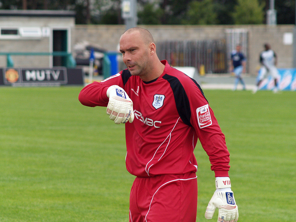 Bury FC goalkeeper Wayne Brown during the Northwich Victoria vs. Bury pre-season friendly at The Marston’s Arena, home of Northwich Victoria FC. Saturday 2nd August 2008